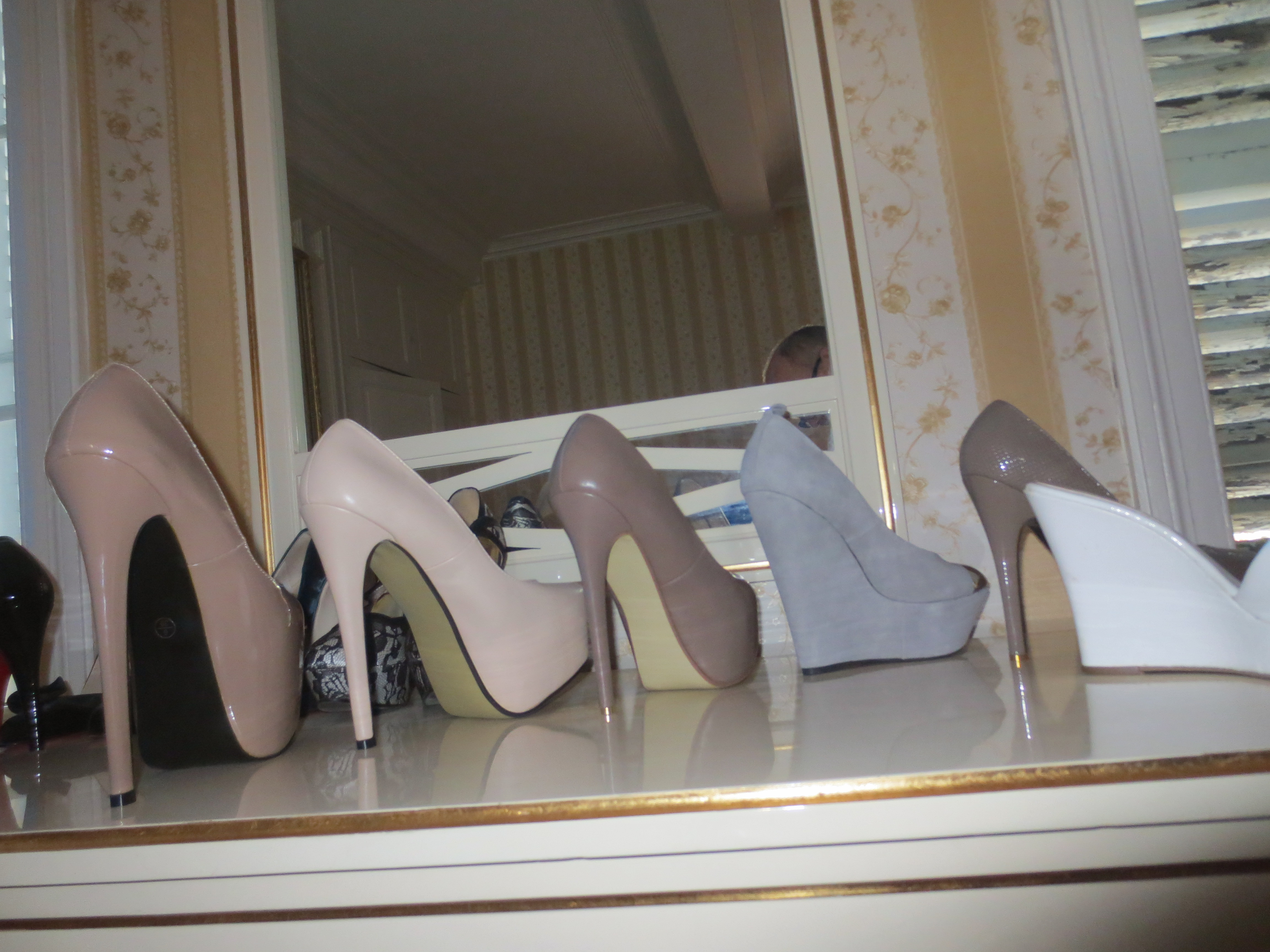 Platform shoes with A) 19 cm Heel - 8.5 cm Platform / B)-17.0 - 6.5 / C) 16.0 - 4.5 / D) 16.0 - 4.0 / E) 15.5 - 3.5 / F) 13.5 - 2.5; Side View